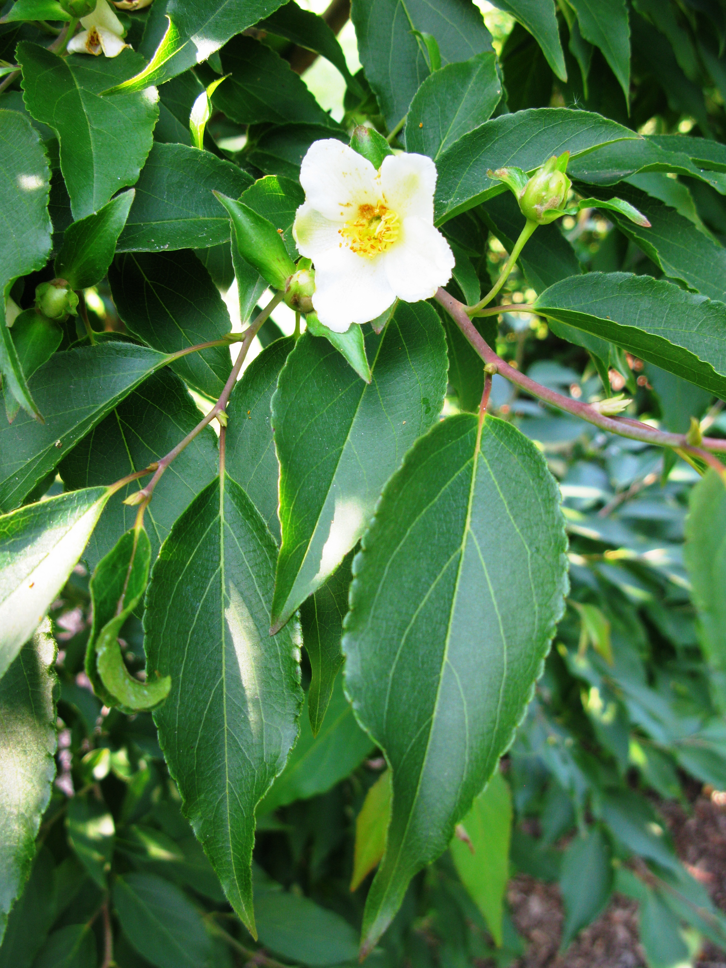 Stewartia monadelpha, Koishikawa Botanical Gardens, The University of Tokyo, Japan